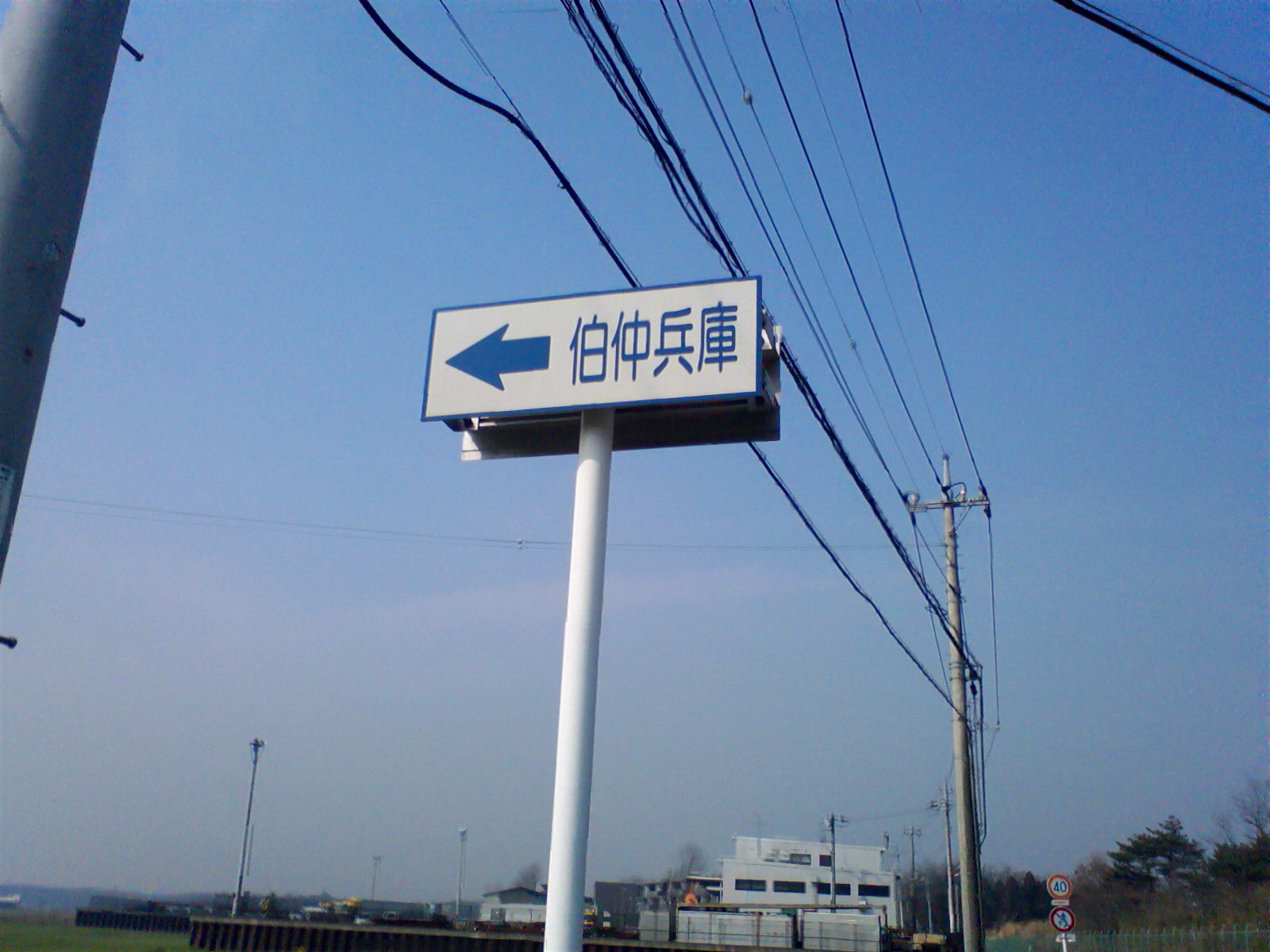 The information plate of Hyogo area